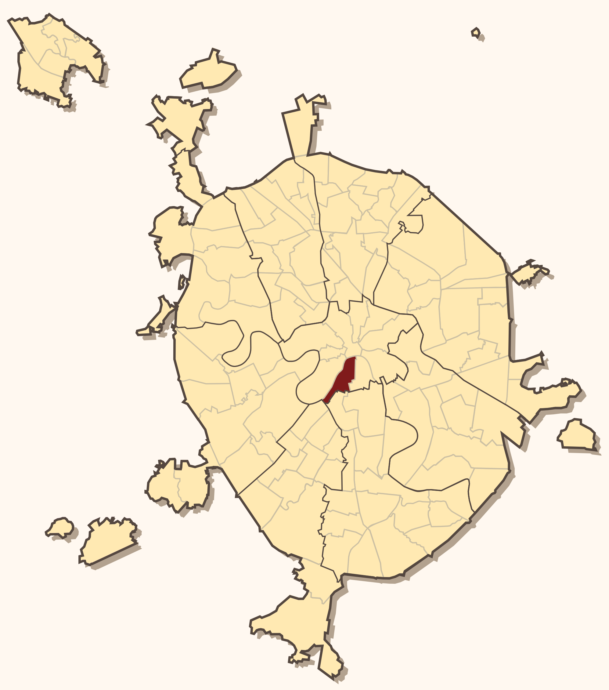 Moscow districts map